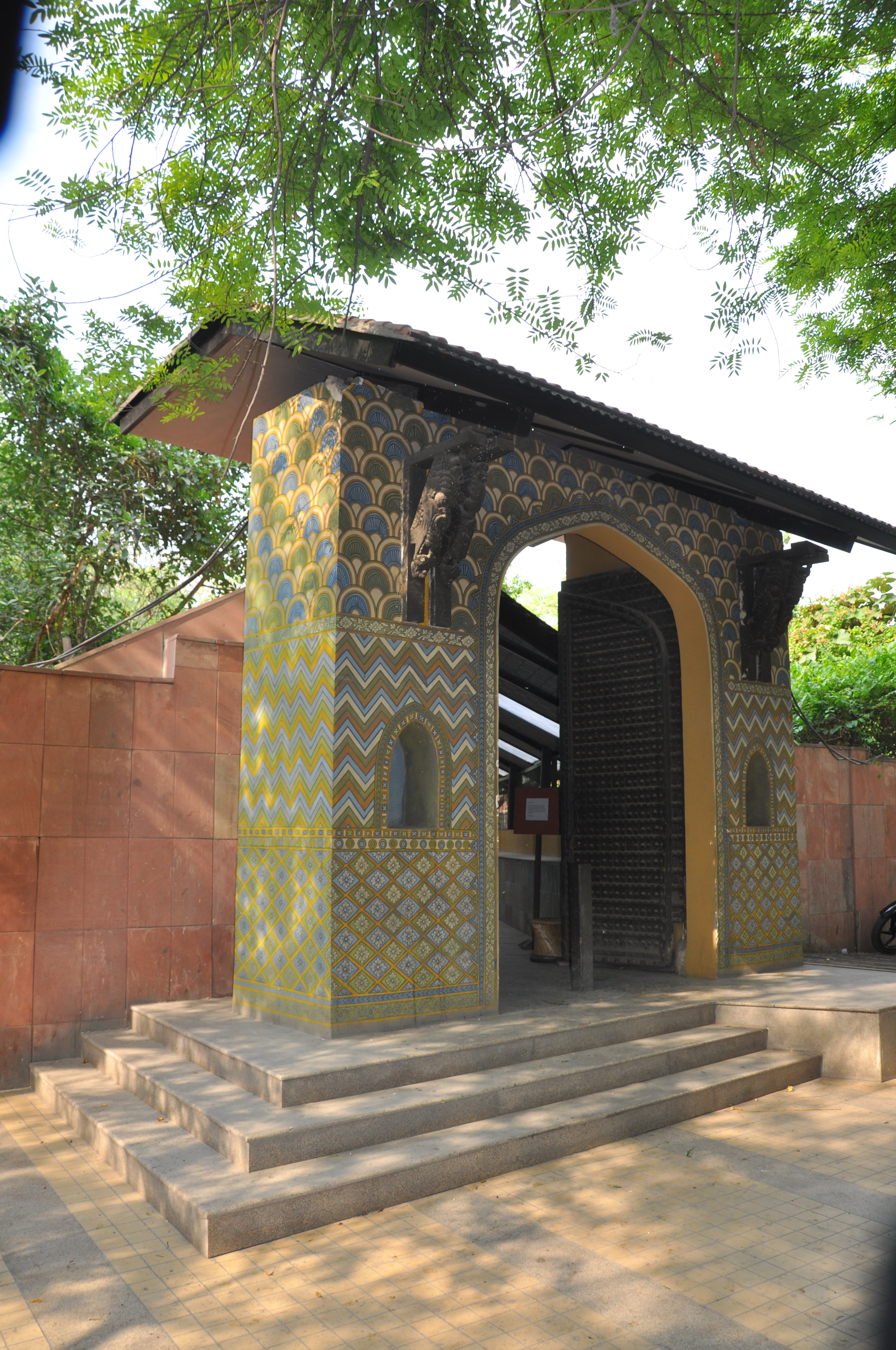 Crafts Museum's entrance